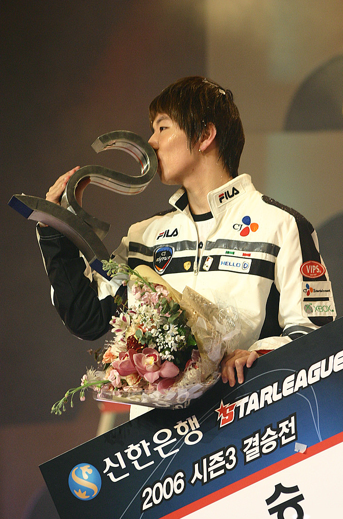 Savior, winner of the third Shinhan Bank Starleague